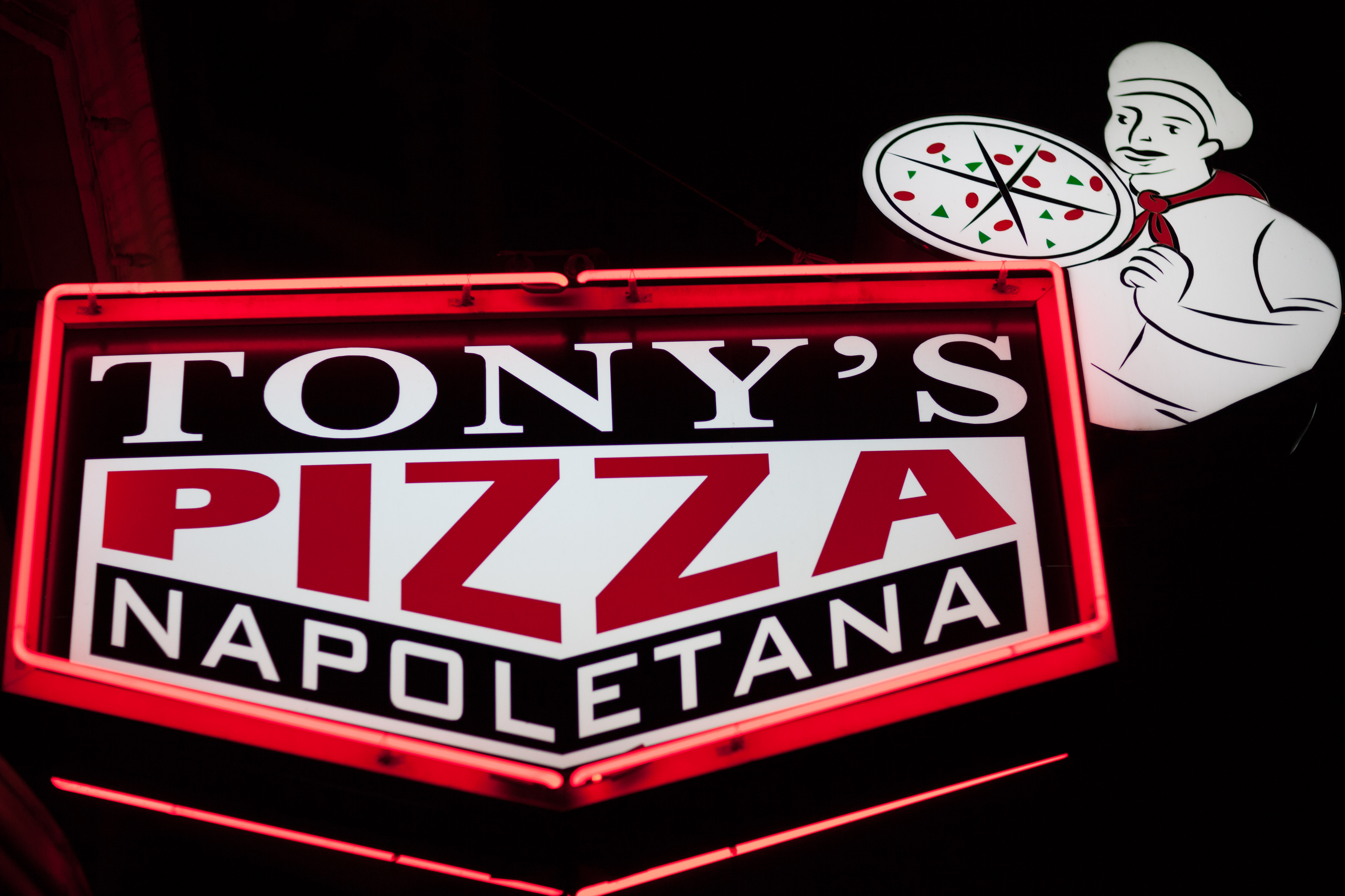 Tony's Pizza Napoletana in North Beach, San Francisco.